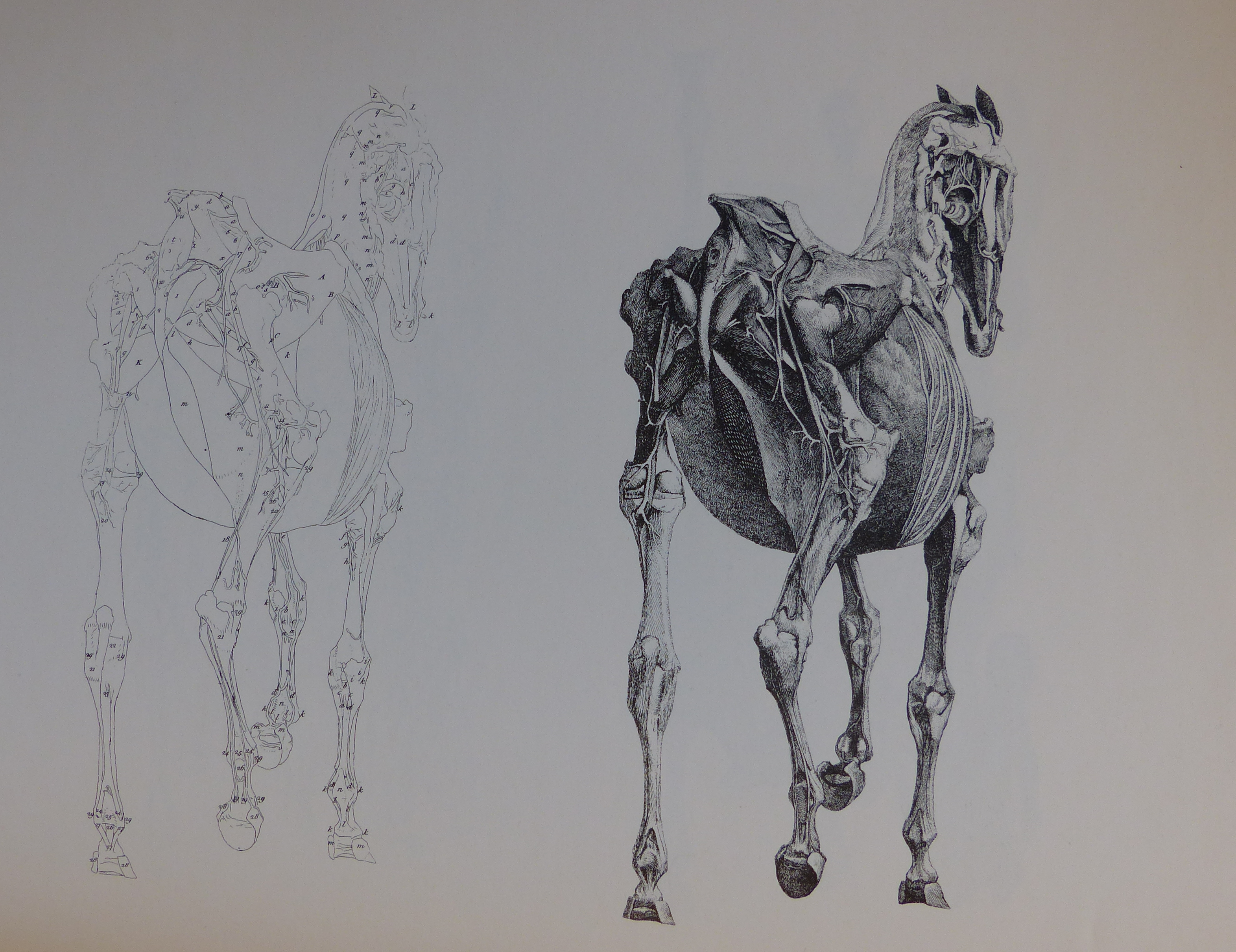 George Stubbs. The Anatomy of the Horse. London 1766, Vol 4. Plate 18